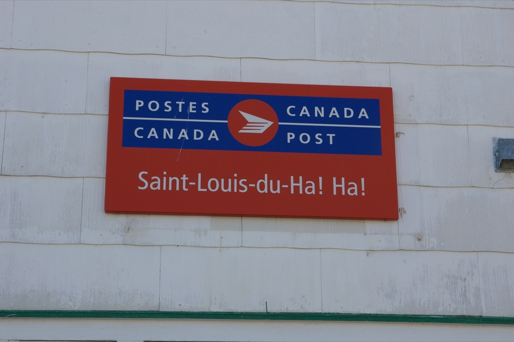 I don't know the story here, but we felt obligated to stop and take a few photos.